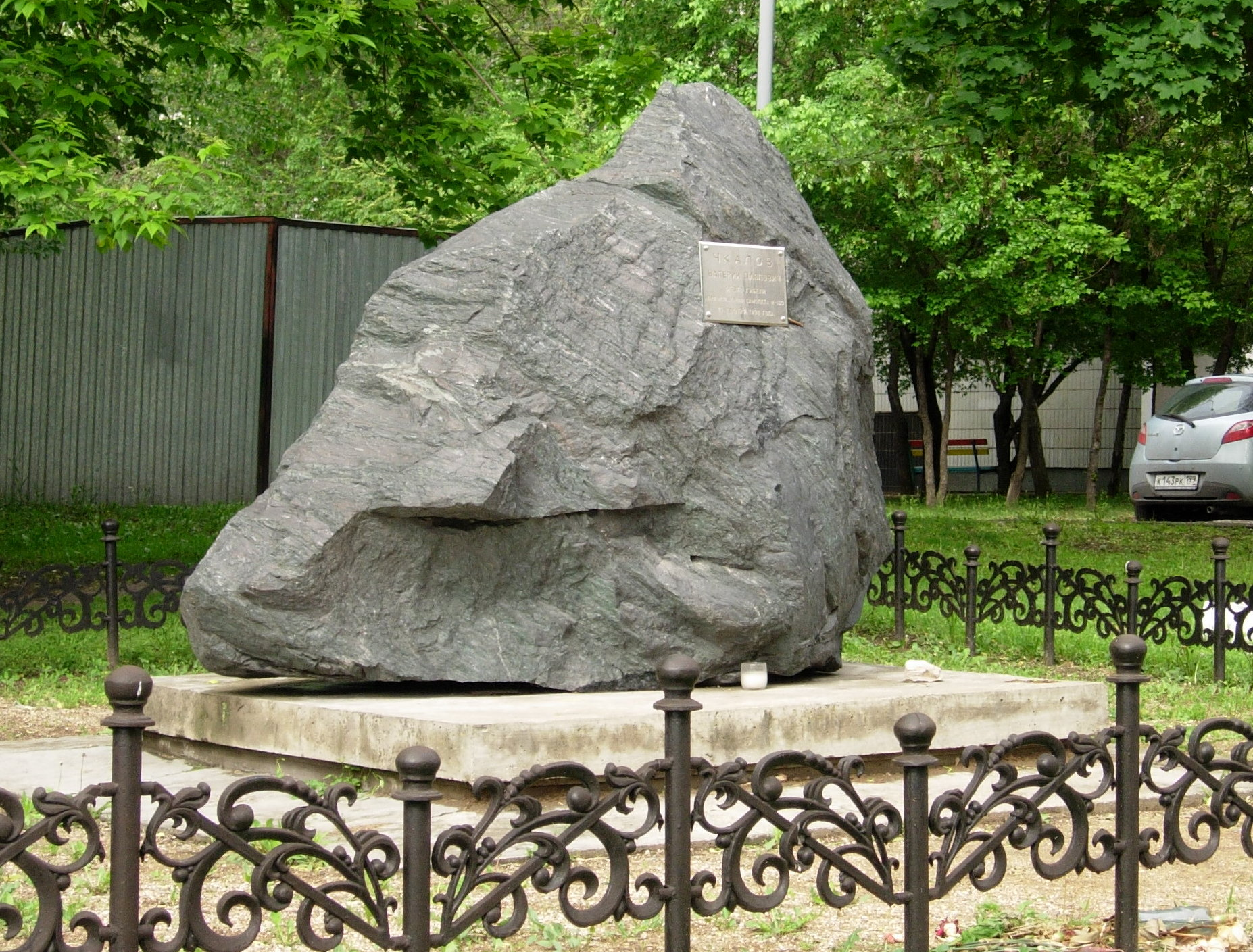 Monument at the point of death of Valeriy Chkalov